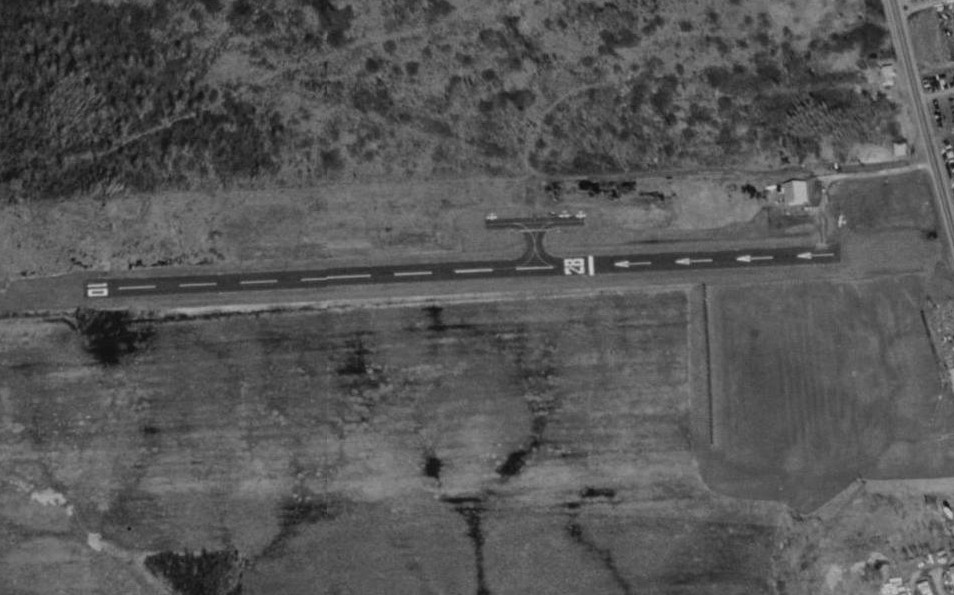 Aerial image of Michael Airfield in Cicero, New York, United States